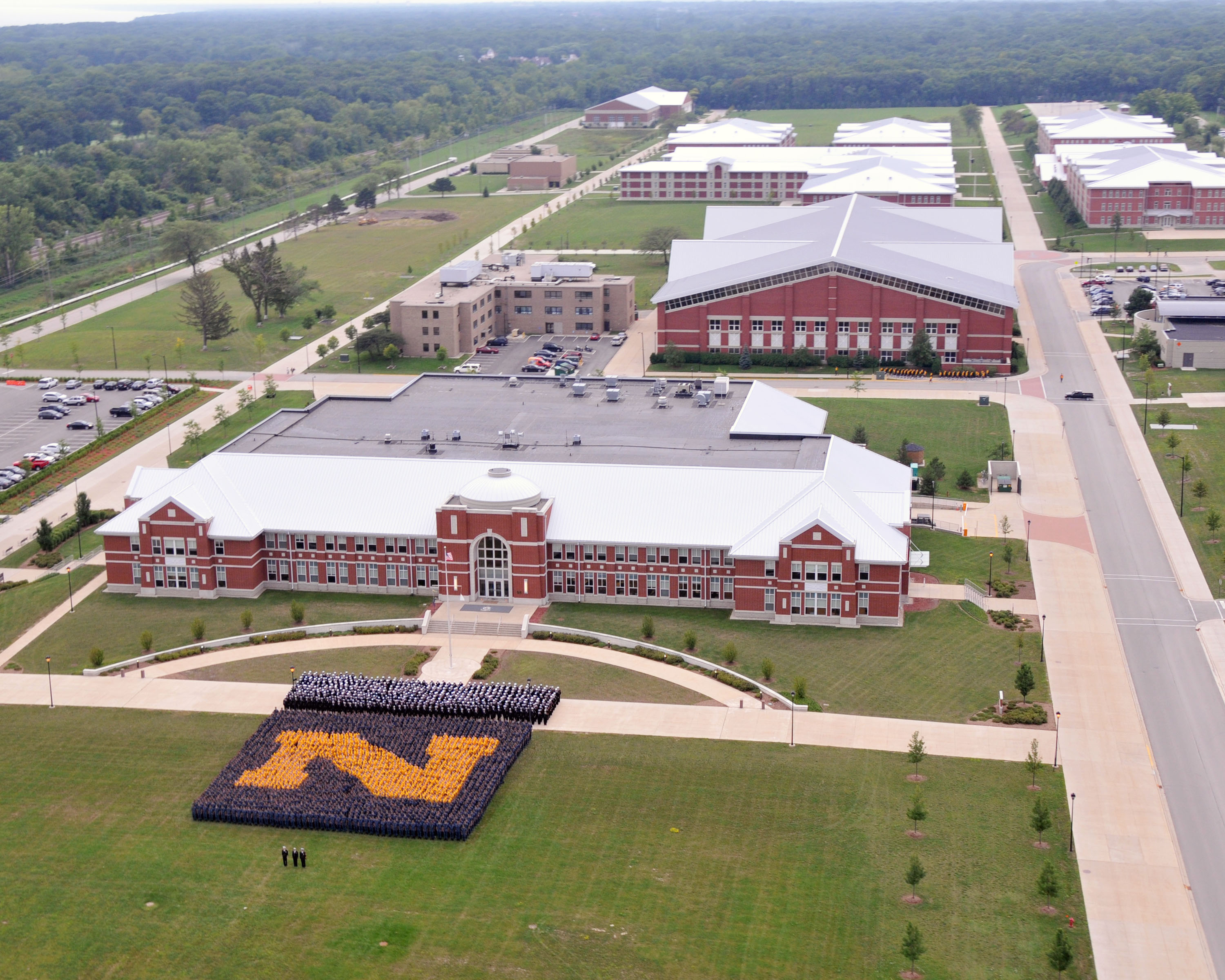 NAVAL STATION GREAT LAKES, Ill. (Aug. 20, 2011) More than 3,000 recruits and 1,200 staff members from Recruit Training Command form a blue and gold N in this aerial view taken from a U.S. Coast Guard Search and Rescue HH-65C Dolphin helicopter assigned to Coast Guard Air Station, Traverse City, Mich. Recruit Training Command is the Navy's only boot camp. (U.S. Navy photo by Scott A. Thornbloom/Released)